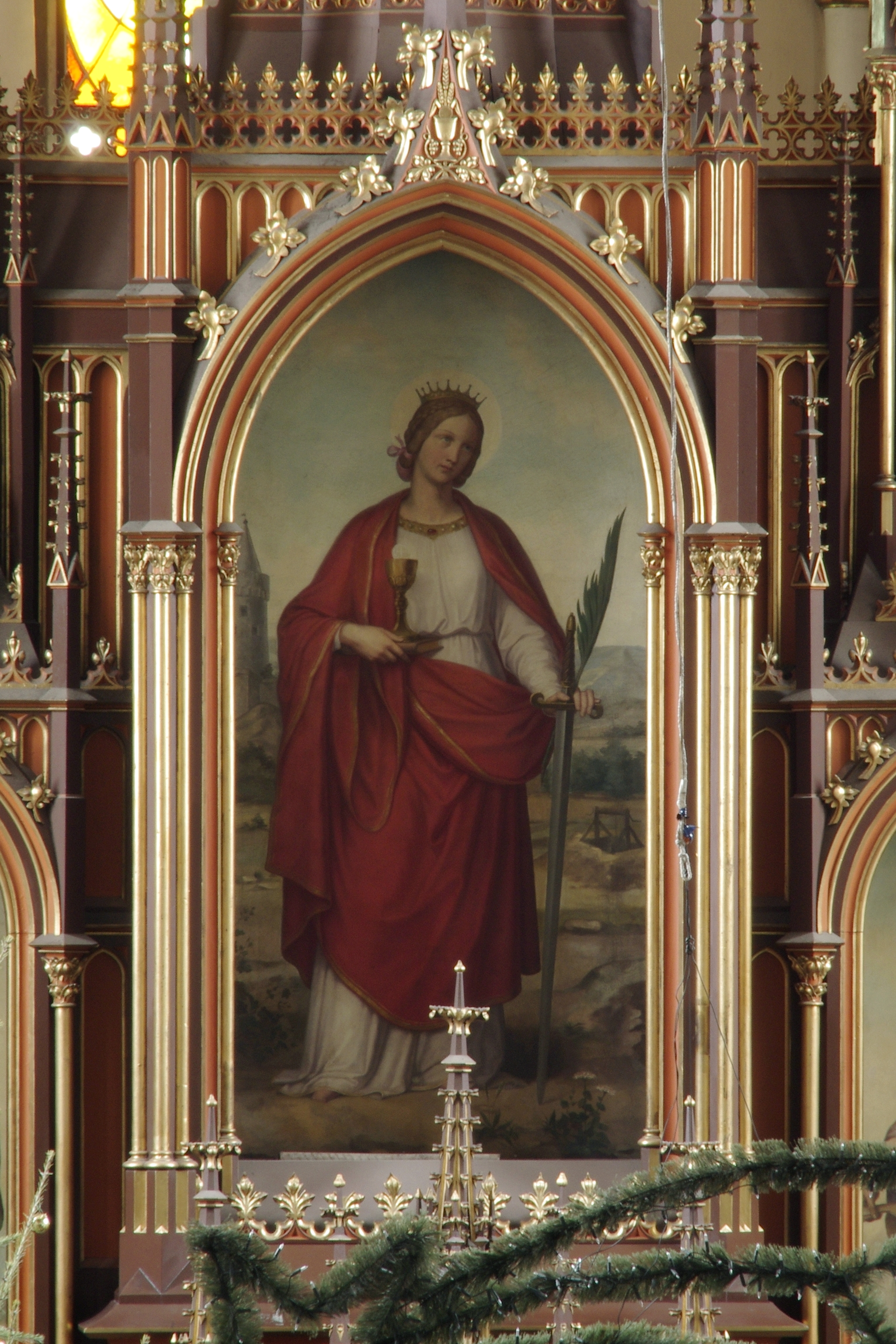 Painting by unknown author, made in Munich before 1854, depicting saint Barbara of Nicomedia; in main altar of St. Barbara church in Chorzów, Poland. From Król coal mine.